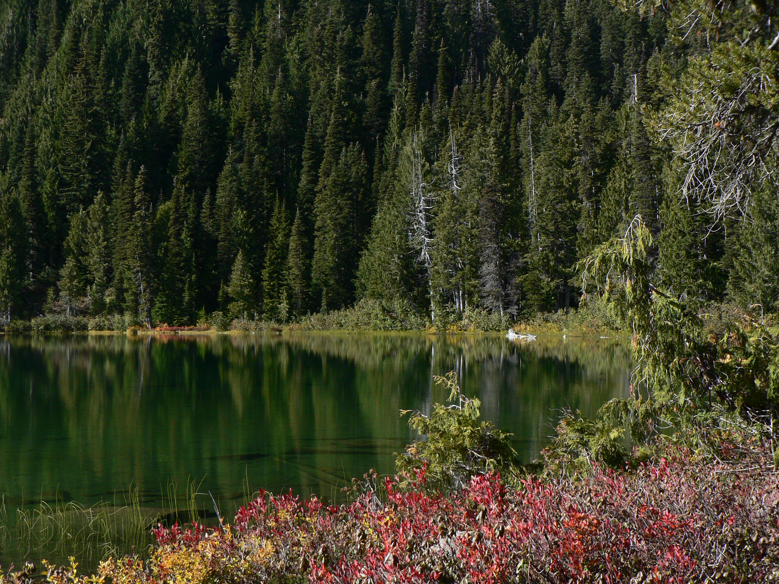 Squaw Lake (4841 feet); Huckleberry and Yellow Cedar